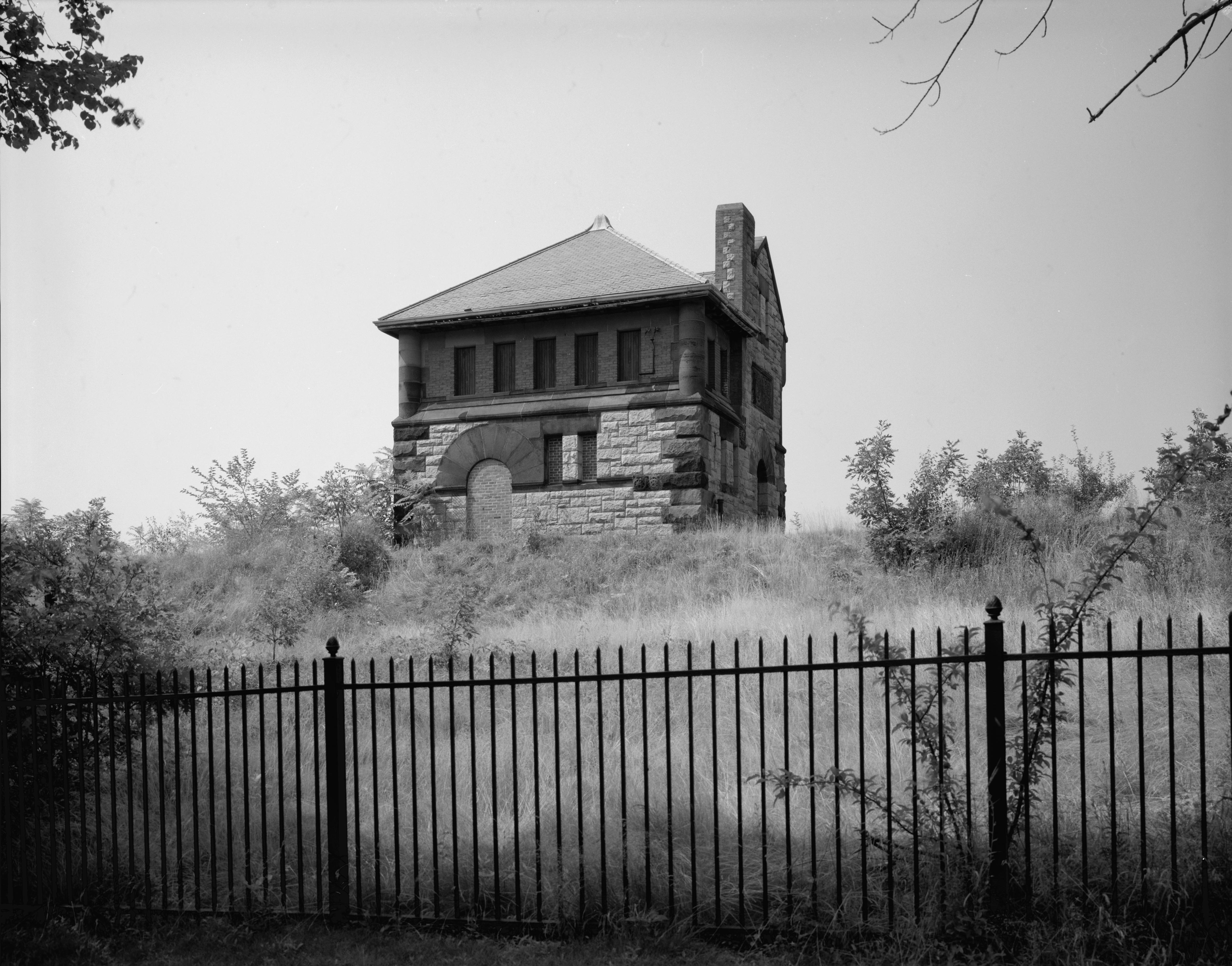 Fisher Hill Reservoir gatehouse, Brookline, Massachusetts, Arthur H. Vinal, architect (1887)